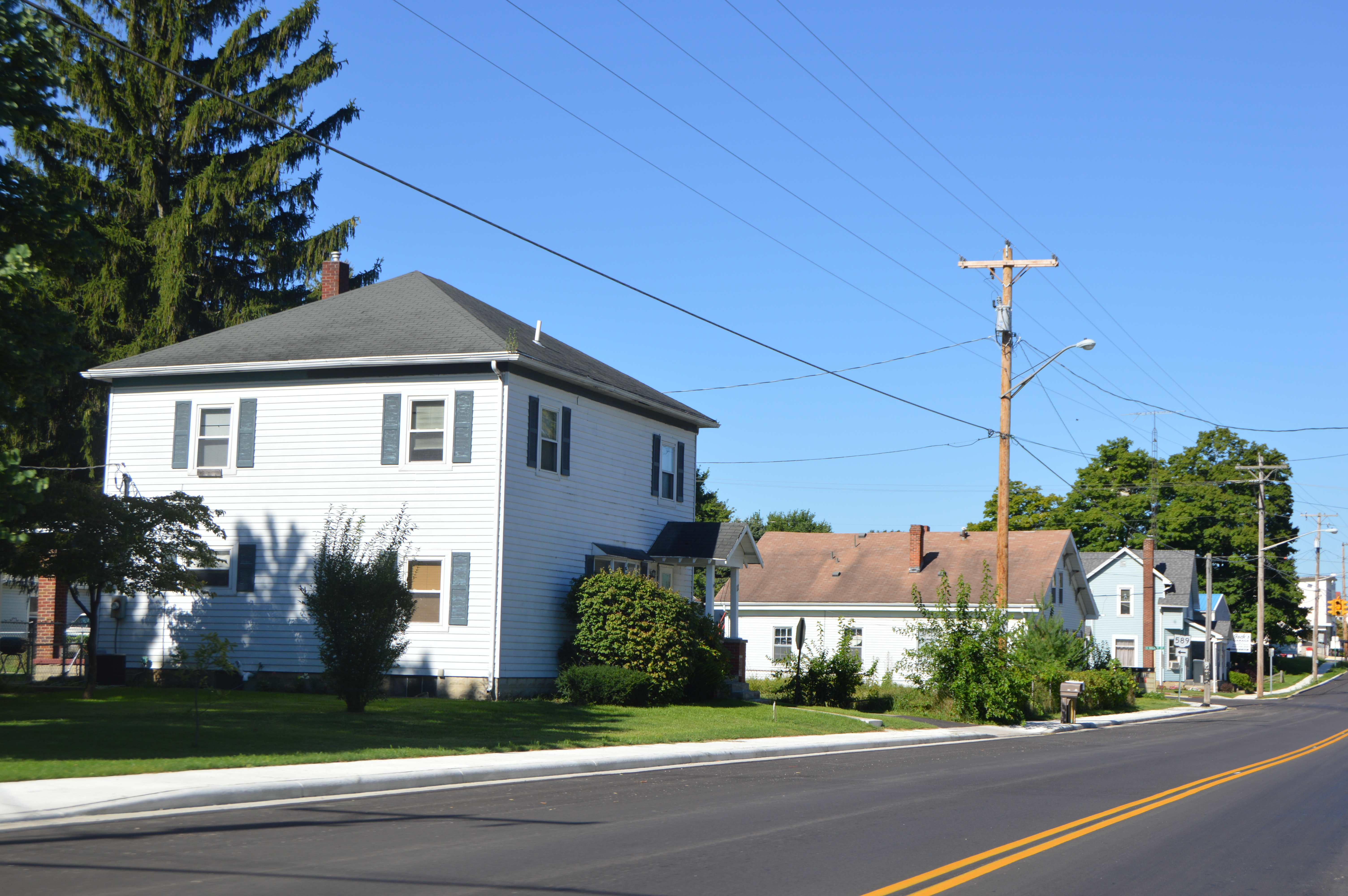 Houses on the southern side of Main Street (U.S. Route 36) east of the Walnut Street intersection in Fletcher, Ohio, United States.